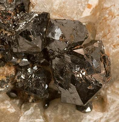 Brookite, Quartz Locality: Magnet Cove, Hot Spring County, Arkansas, USA (Locality at ) Size: 8.6 x 6.7 x 3.2 cm. Brookite is a signature mineral species from the famous Magnet Cove deposit of Arkansas and this fine specimen is richly covered with splendent, metallic-gray, blocky brookite crystals to 1.3 cm on a sculptural, crystallized quartz matrix. Ex. Richard Hauck Collection.